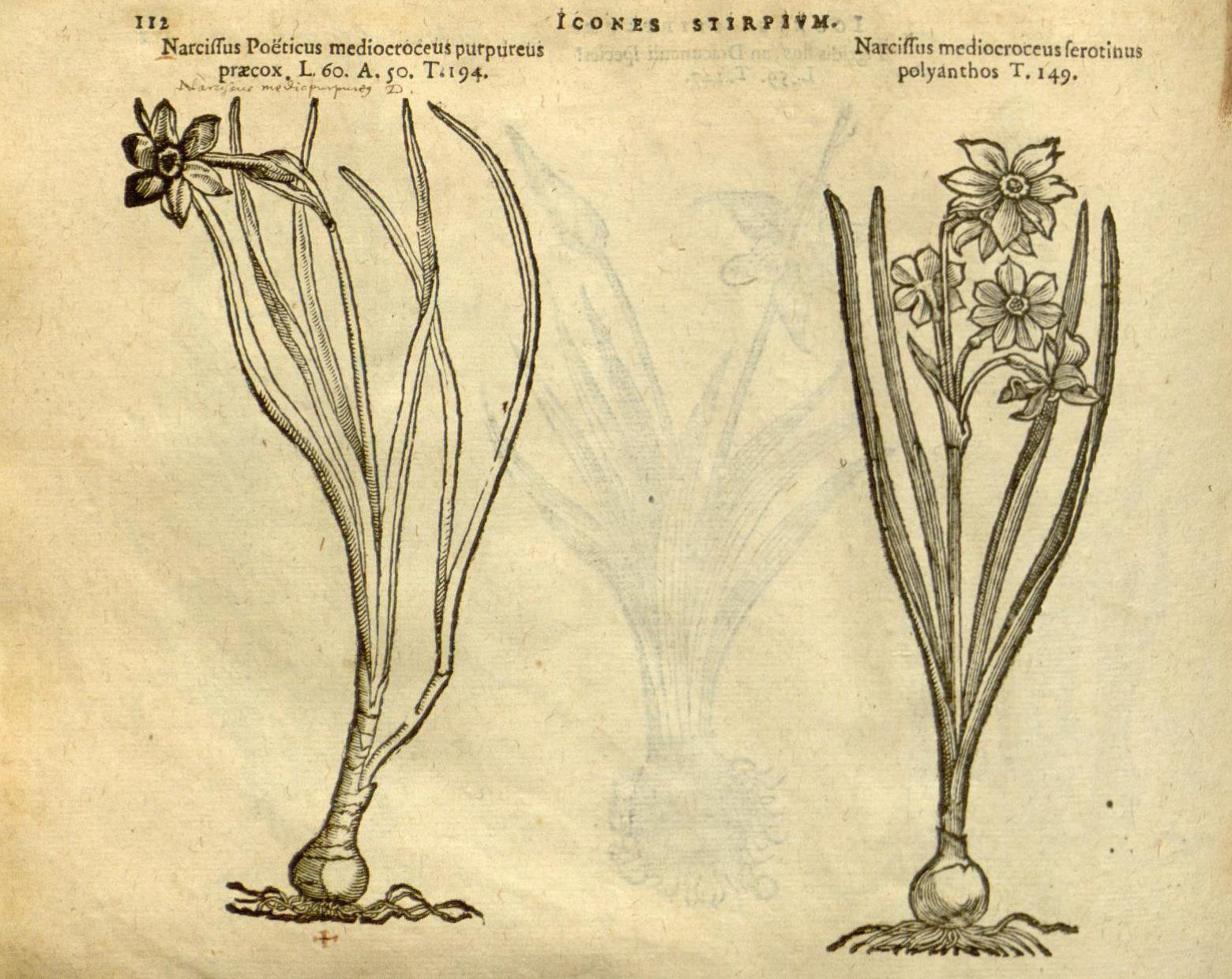 Icones stirpium, seu, Plantarum tam exoticarum, quam indigenarum :in gratiam rei herbariae studiosorum in duas partes digestae : cum septem linguarum indicibus, ad diuersarum nationum vsum. Page 112 Narcissus poeticus